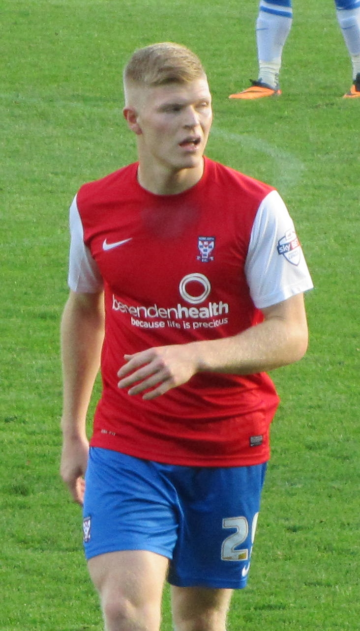 Elliott Whitehouse playing for York City against Fleetwood Town at Bootham Crescent, York on 26 October 2013